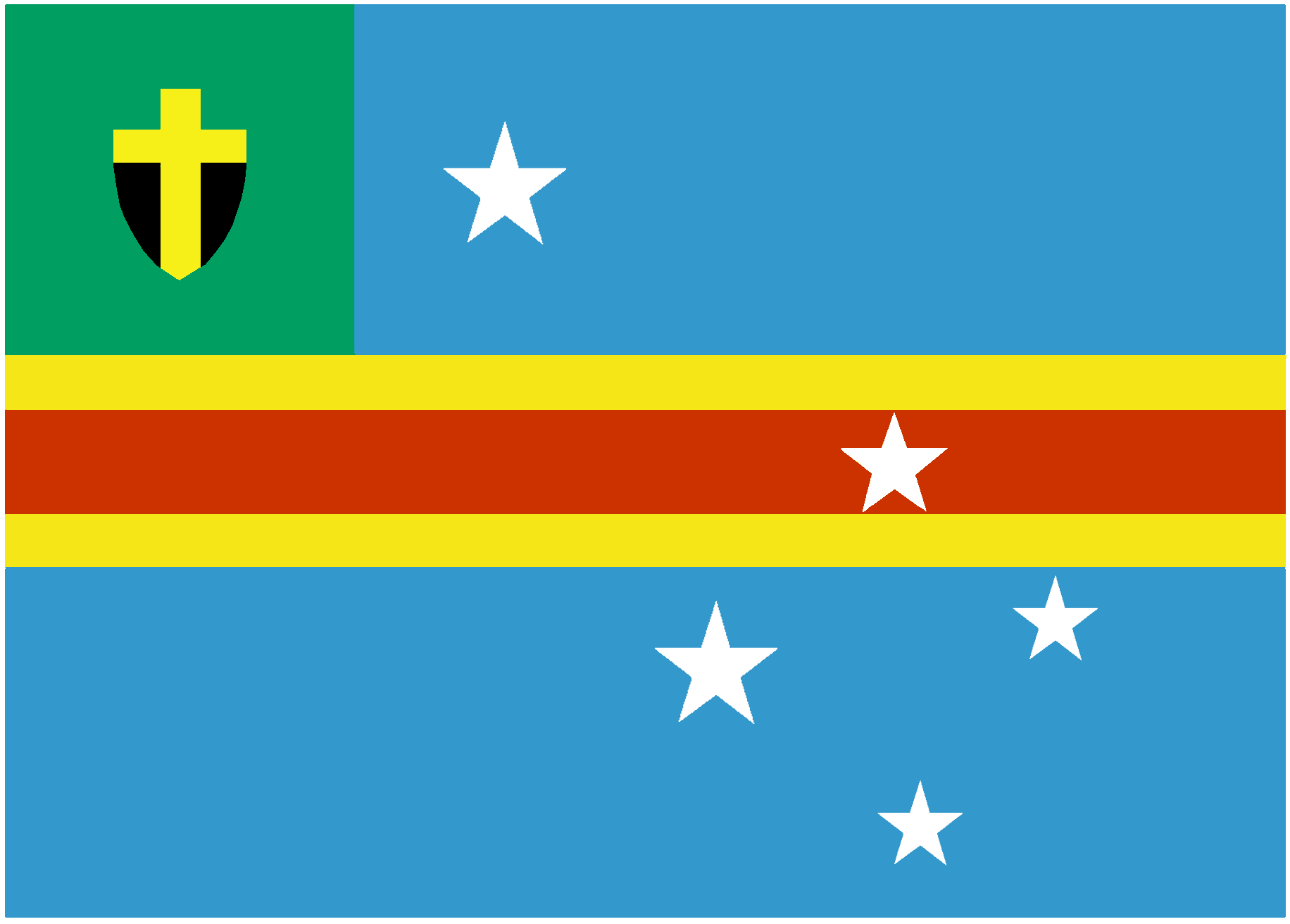 Flag of Tafea, Vanuatu